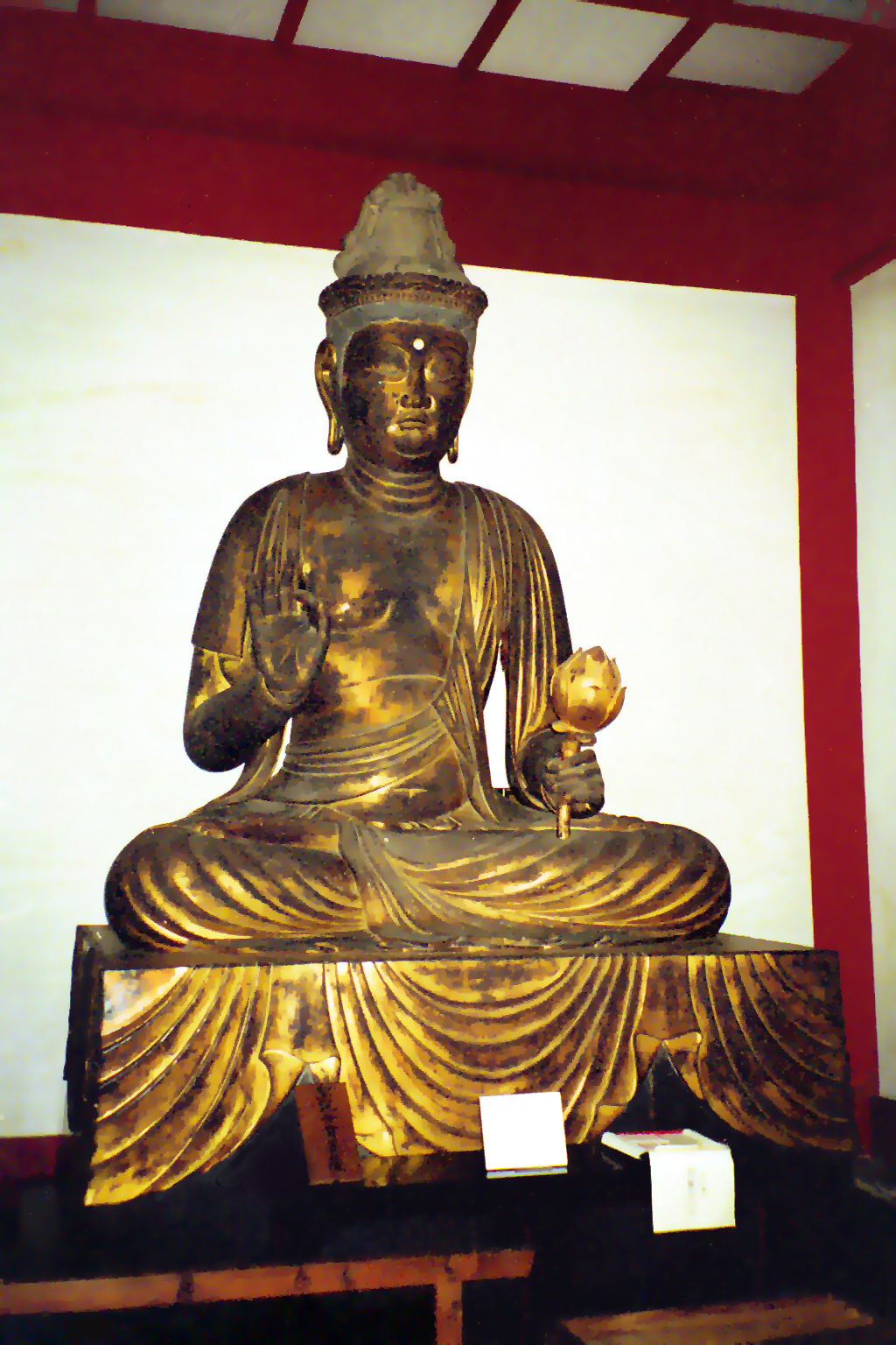 The seated posture of this Sho Kannon is a bit unusual, as most statues of Sho Kannon have him standing upright. His left hand holds a lotus bud, without accompanying vase. The statue was made in 1066 of camphor wood. It is 10' 8" tall.